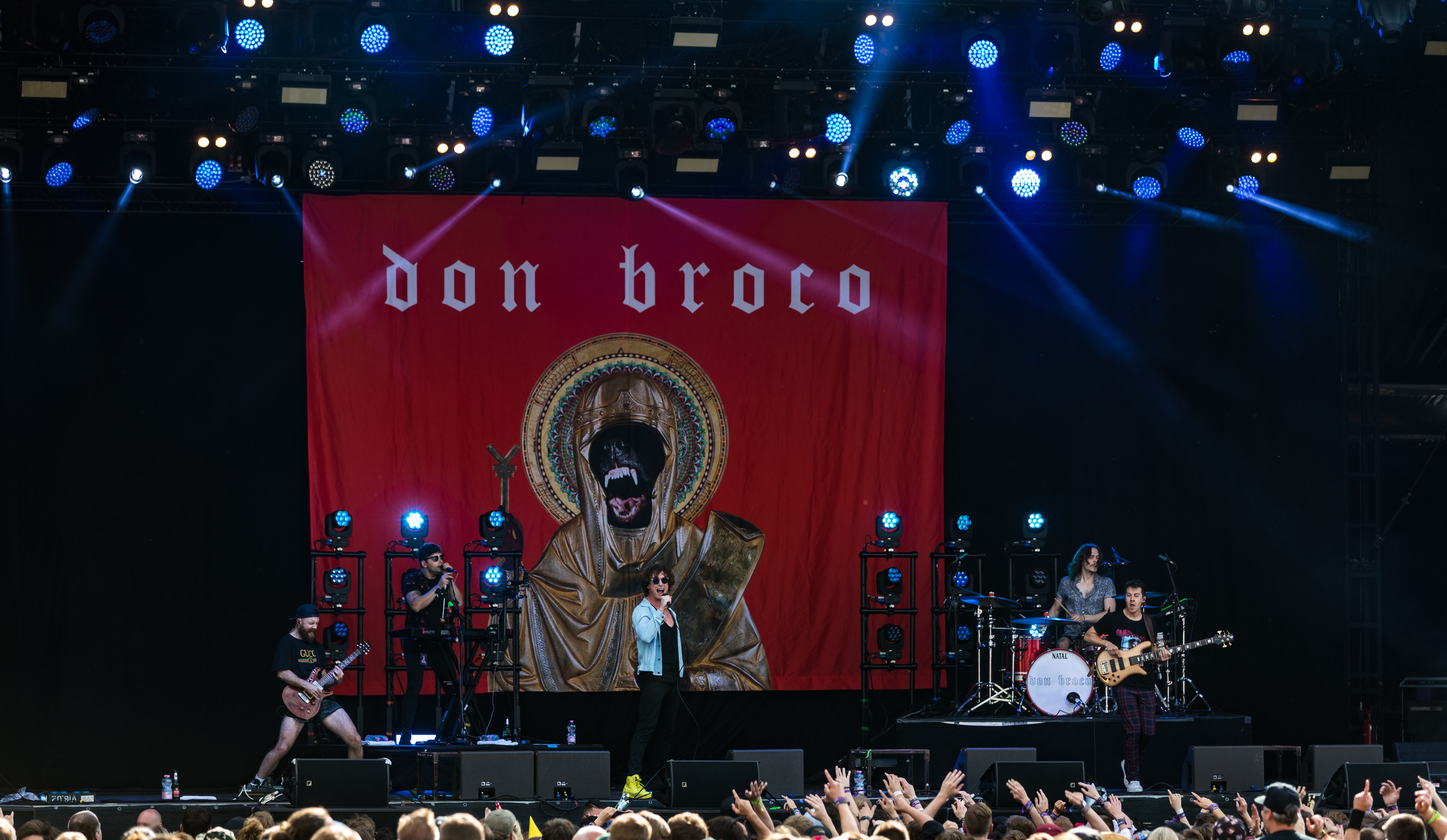 Don Broco - Rock am Ring 2018